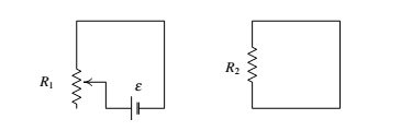 Indut circuitos